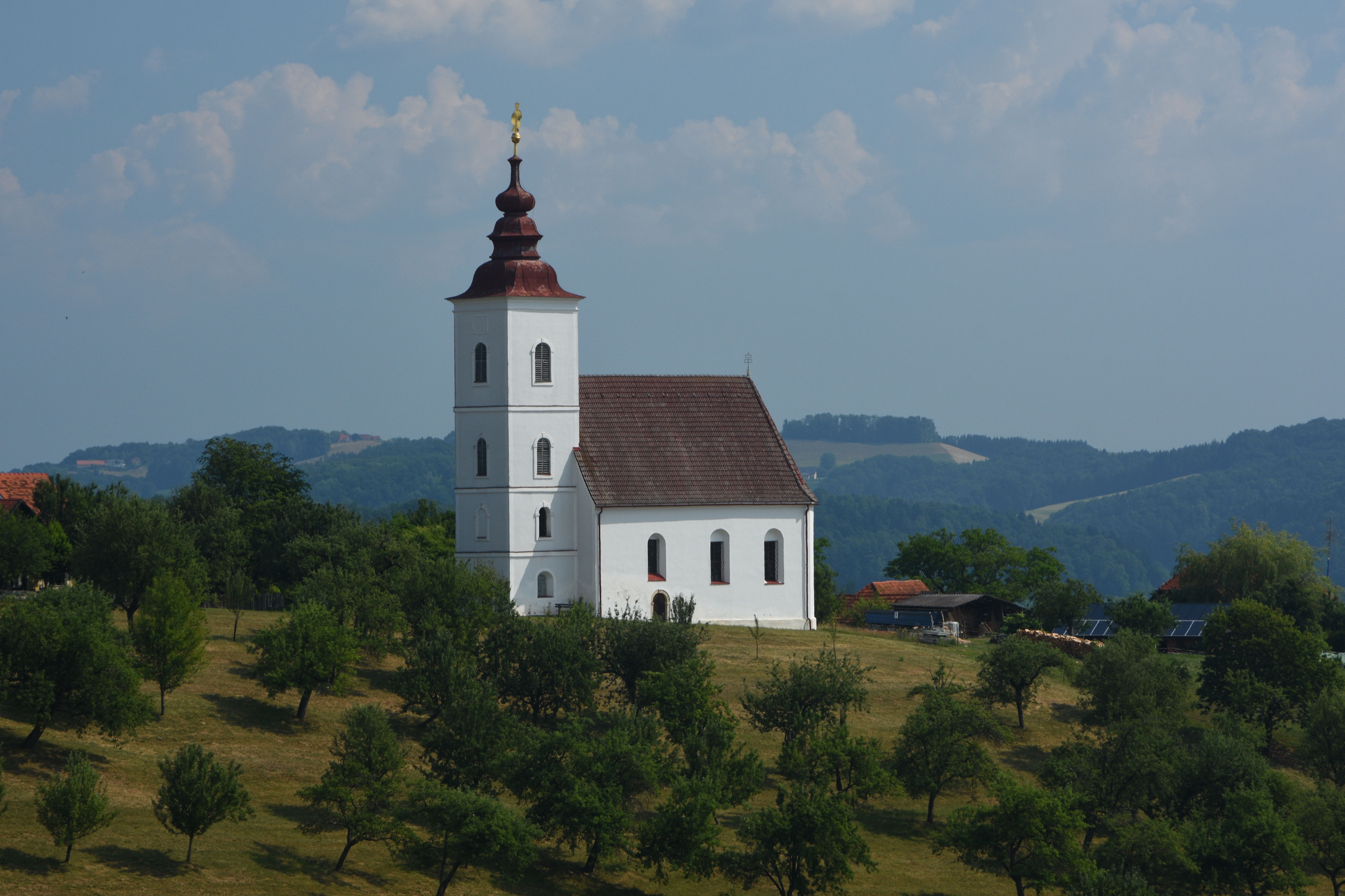 Church hl. Anna Kirchbach